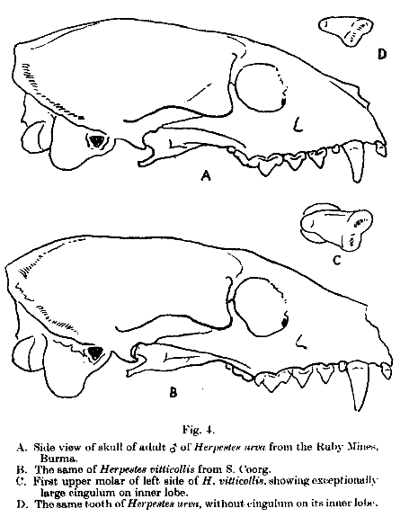 Skulls of Herpestes urva and Herpestes vitticollis